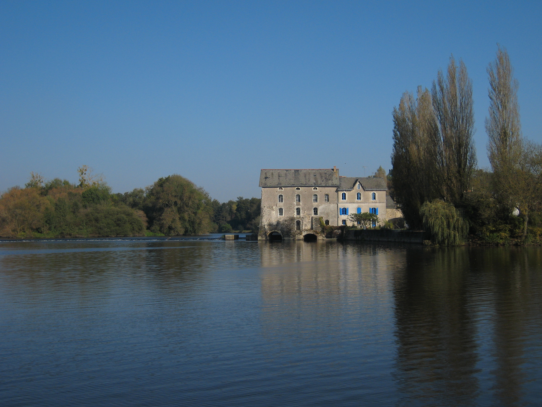 Grez-Neuville, community on the river Mayenne in the département of Maine-et-Loire in the Region Pays de la Loire in France; Great Mill at Neuville.